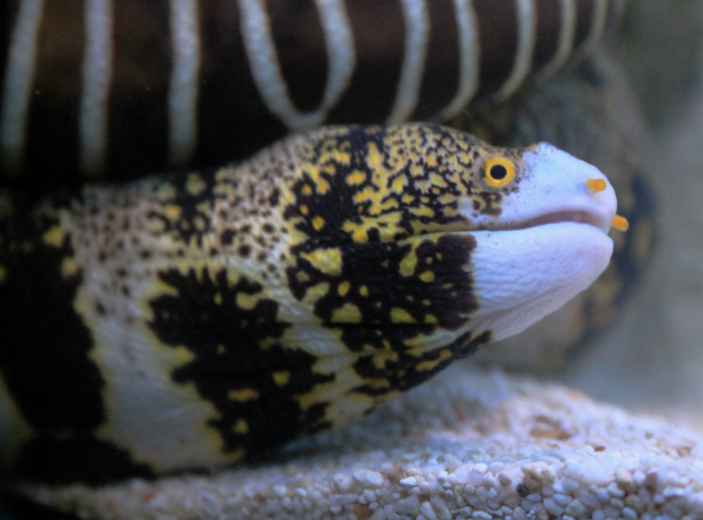 Fish Snowflake moray, Echidna nebulosa in Prague sea aquarium, Czech Republic